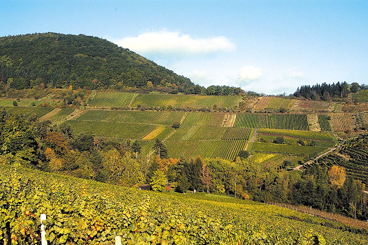 wine location, Dr.Wehrheim, Kastanienbusch, Birkweiler, Pfalz